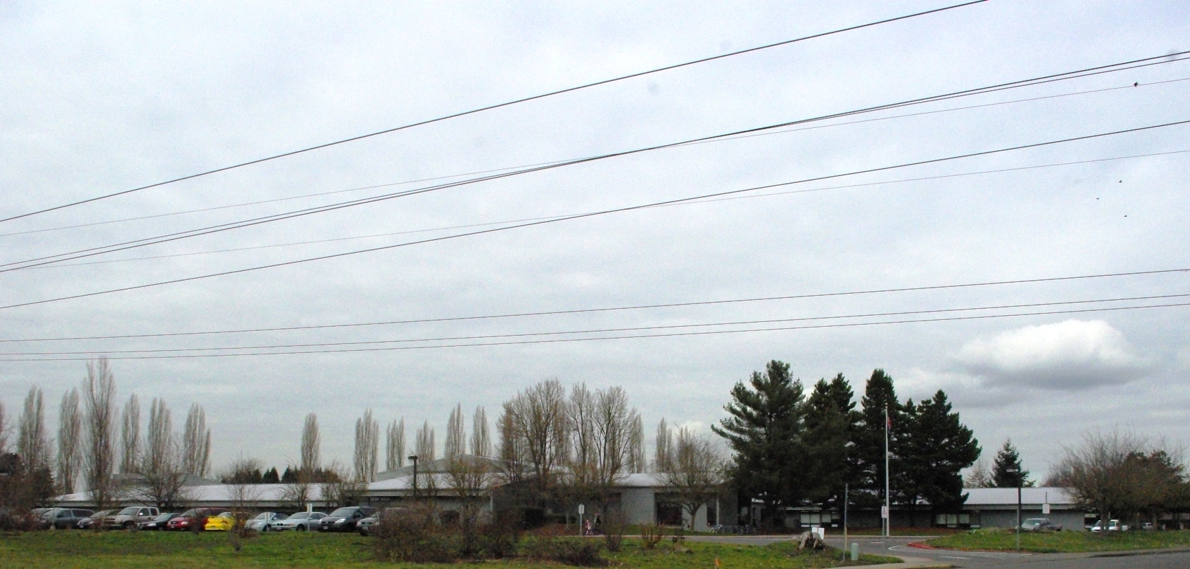 Lenox Elementary School in Rock Creek, Oregon, USA